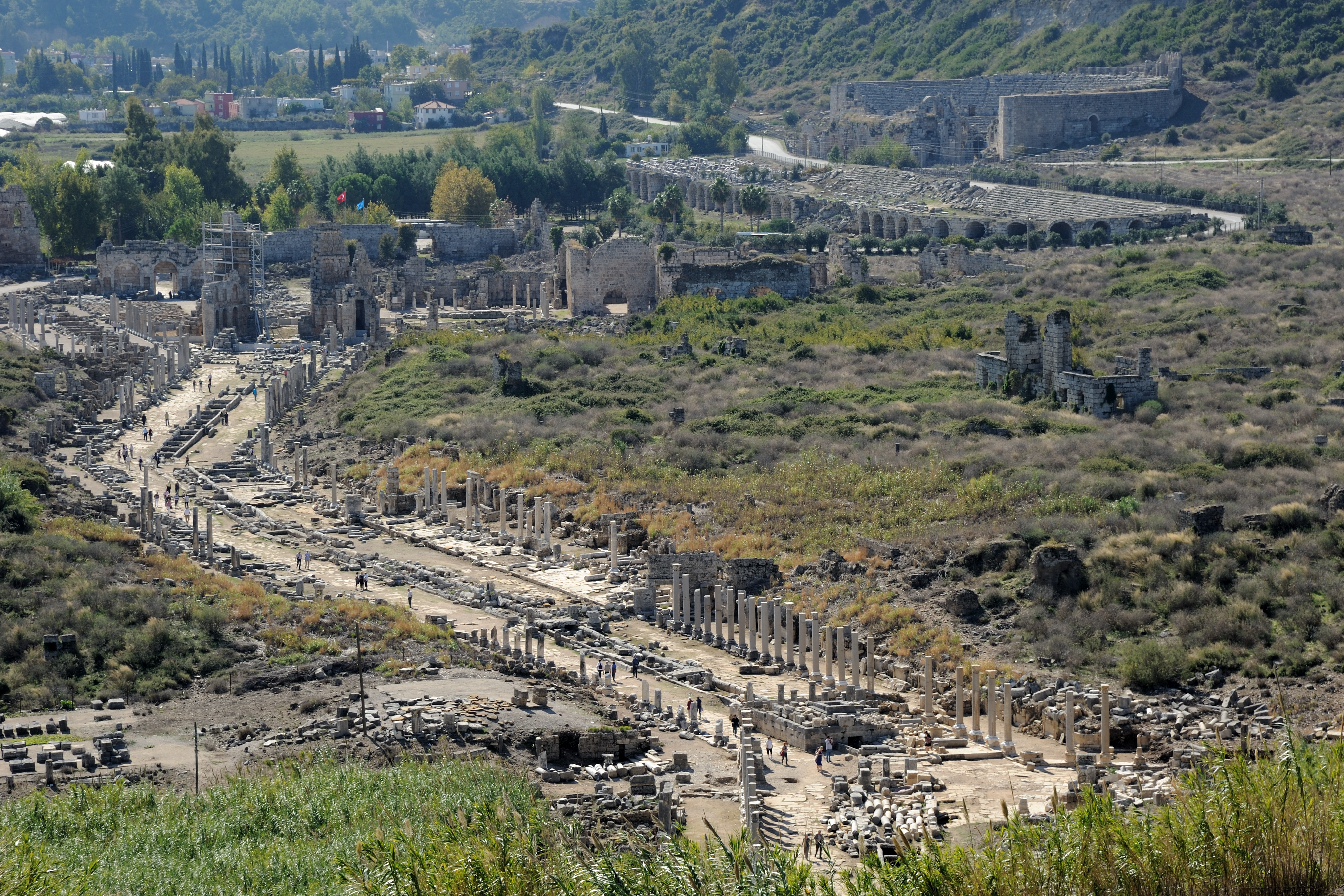 Roman rule of Perge began in 188 BC, and most of the surviving ruins today date from this period. After the collapse of the Roman Empire, Perge remained inhabited until Seljuk times, before being gradually abandoned.